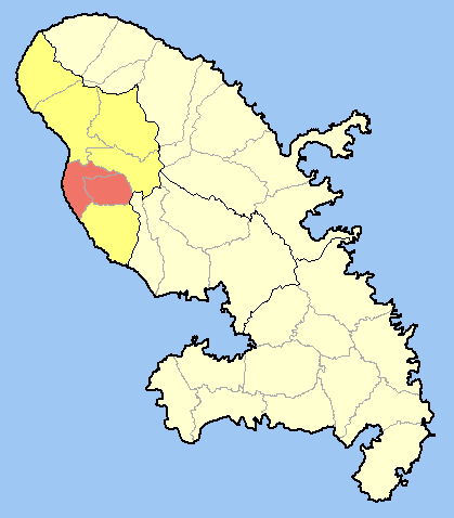 Location of Le Morne-Vert and Carbet within Martinique